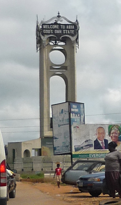 Abia tower in Umuahia, a landmark of Abia State, Nigeria.Igbo: Ulọ elu Abia ime Umuahia, ihe okike àlà nke Ọha Abia, Nigeria.